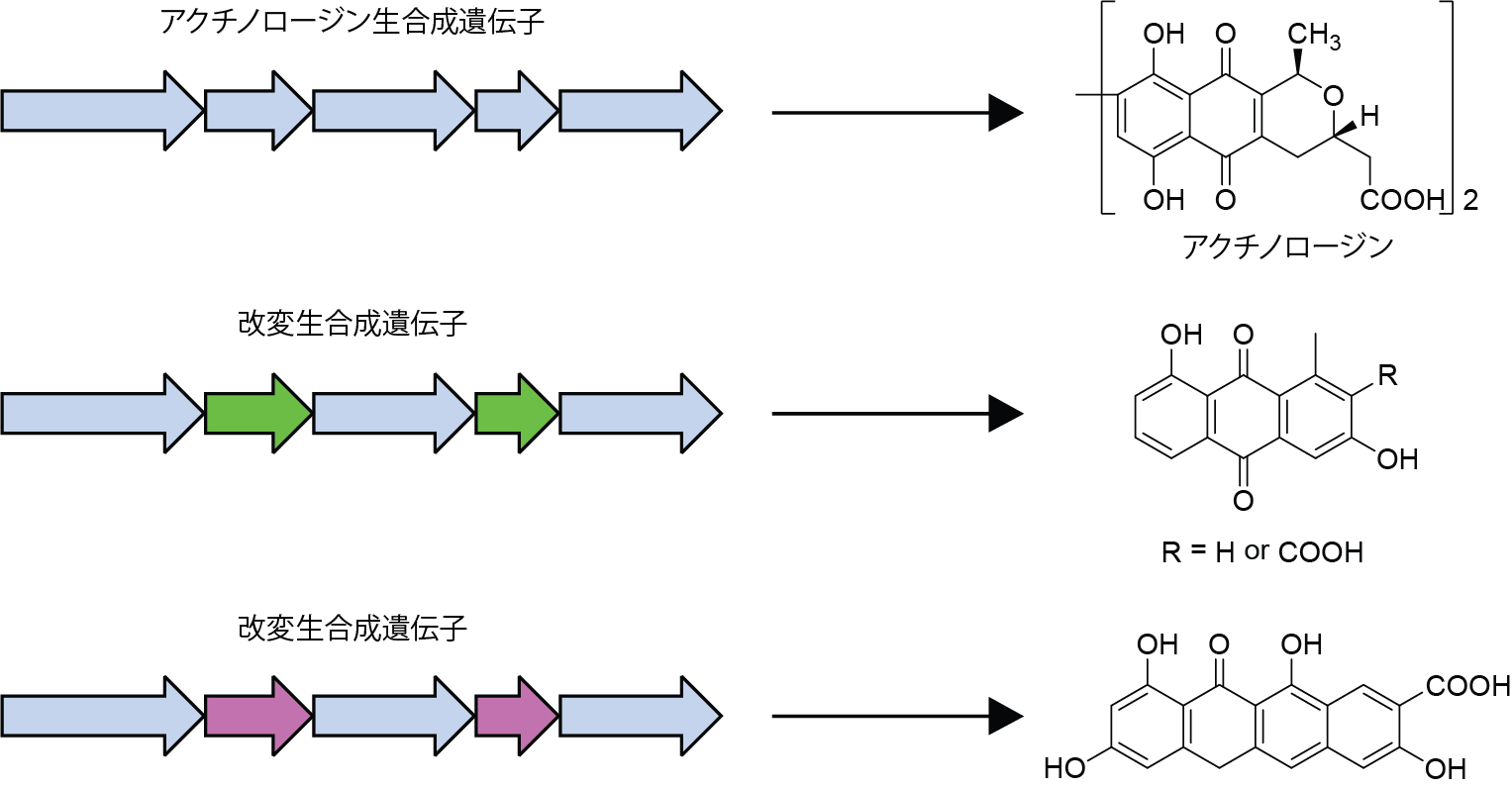 Example 2 of combinatorial biosynthesis (Japanese).